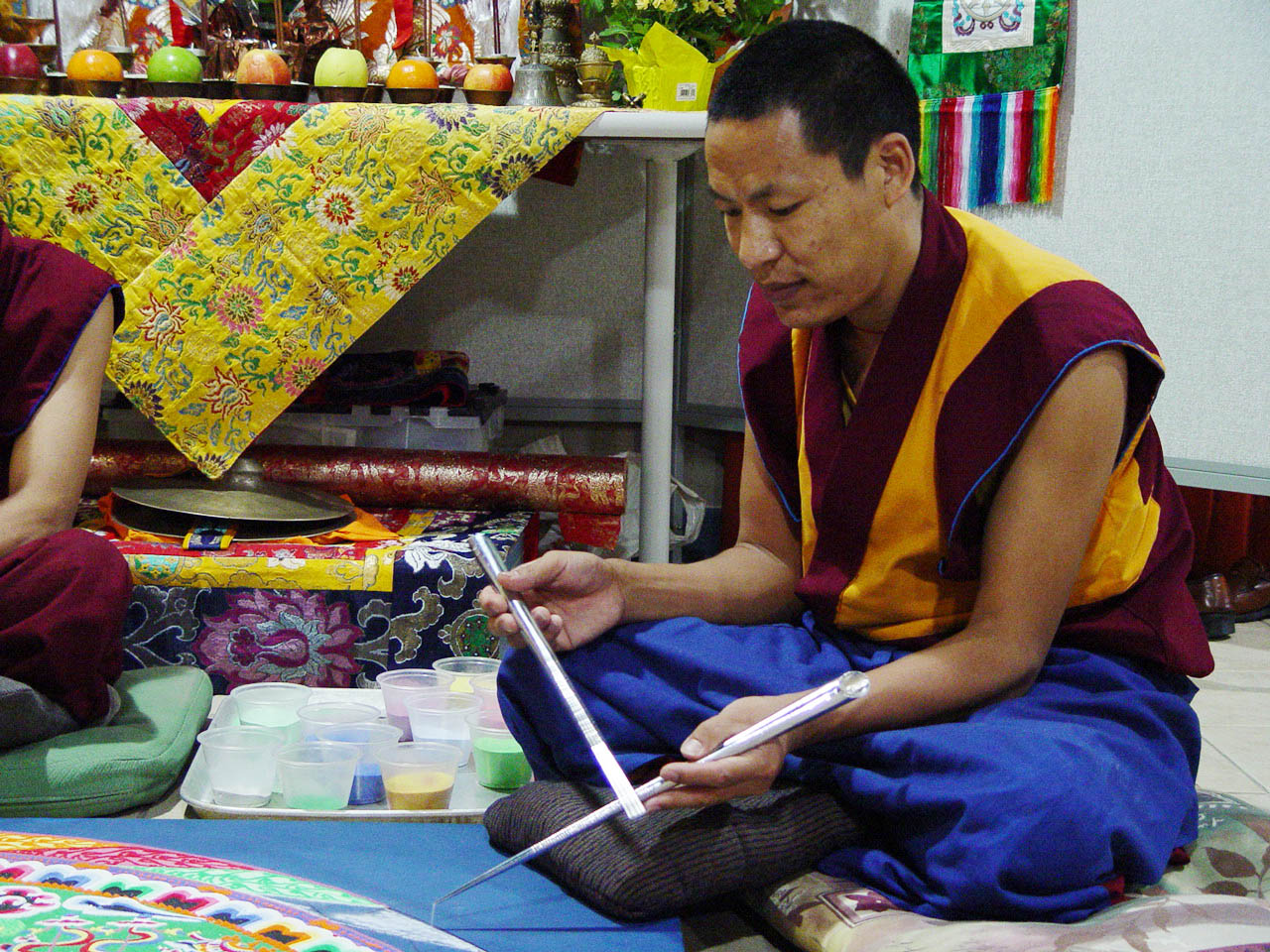 Monks working on Sand Mandala at Nashua High School north.